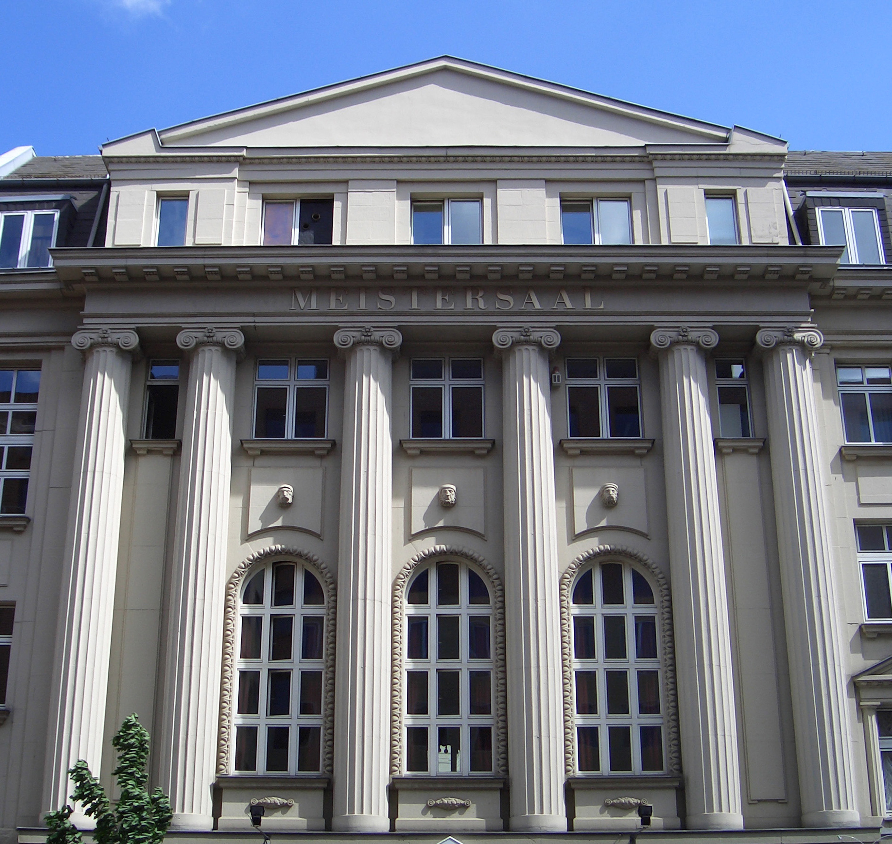 View of the Meistersaal in Berlin